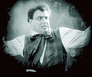 Bartolomeo Pagano as Maciste (1926). From one of the movies: Maciste all'inferno (Italy 1926).